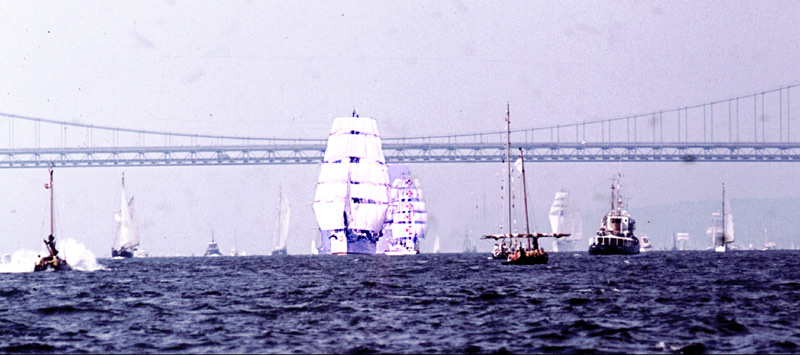 Parade of Sail on 4 July 1976: Operation Sail at the occasion of the US Bicentennial... Tall ships: The square rigger in the middle is probably Dar Pomorza (compare description of this image of the Parade of Sail); to her right, Sagres (III) has the characteristic red crosses on her sails; to the right, the four-masted barquentine is Esmeralda or Juan Sebastián de Elcano (at least today, Juan Sebastián de Elcano is as a topsail schooner, without the lowest square sail... but possibly she was rigged as a barquentine back in the days).